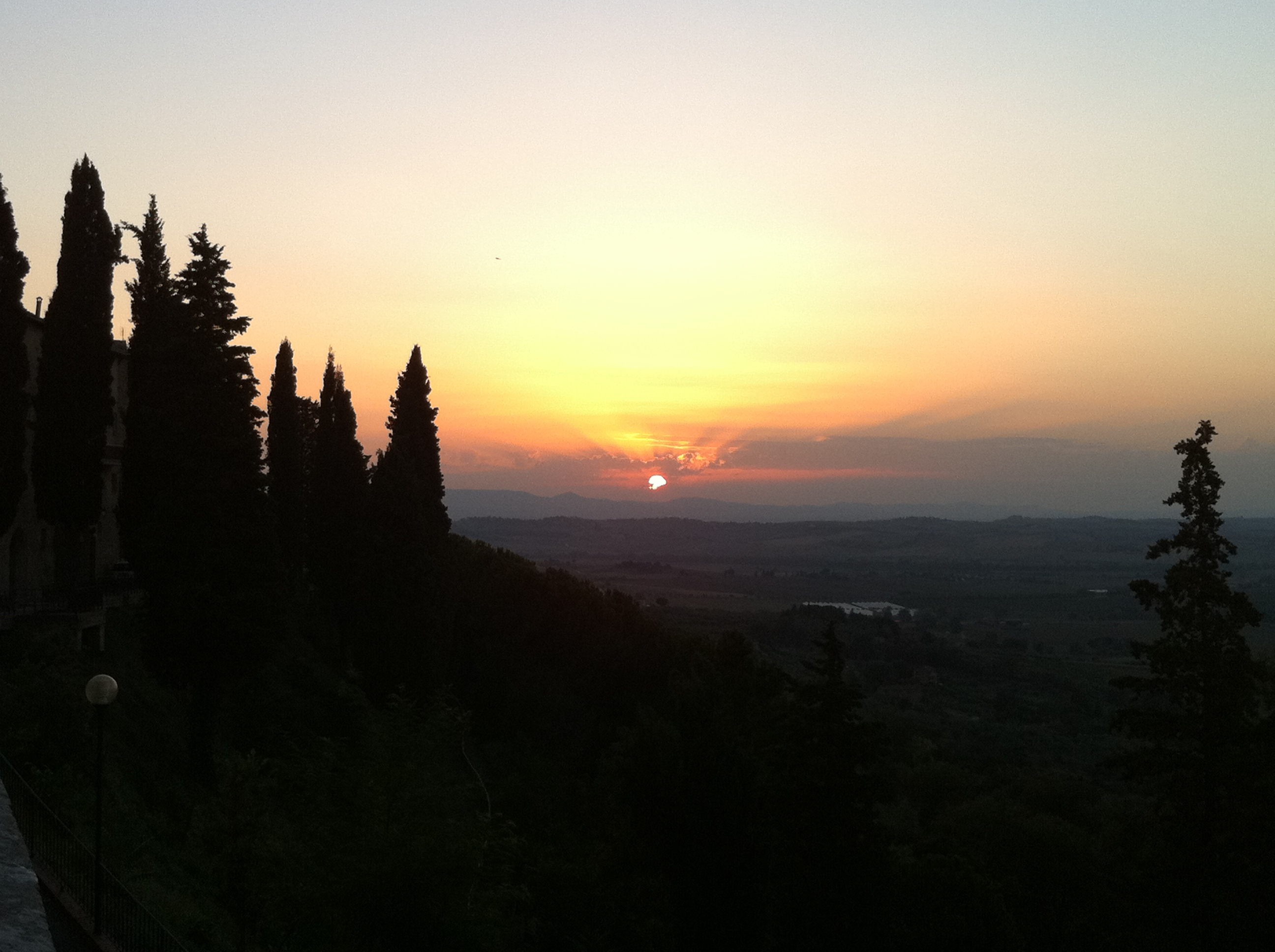 Countryside's Panicale